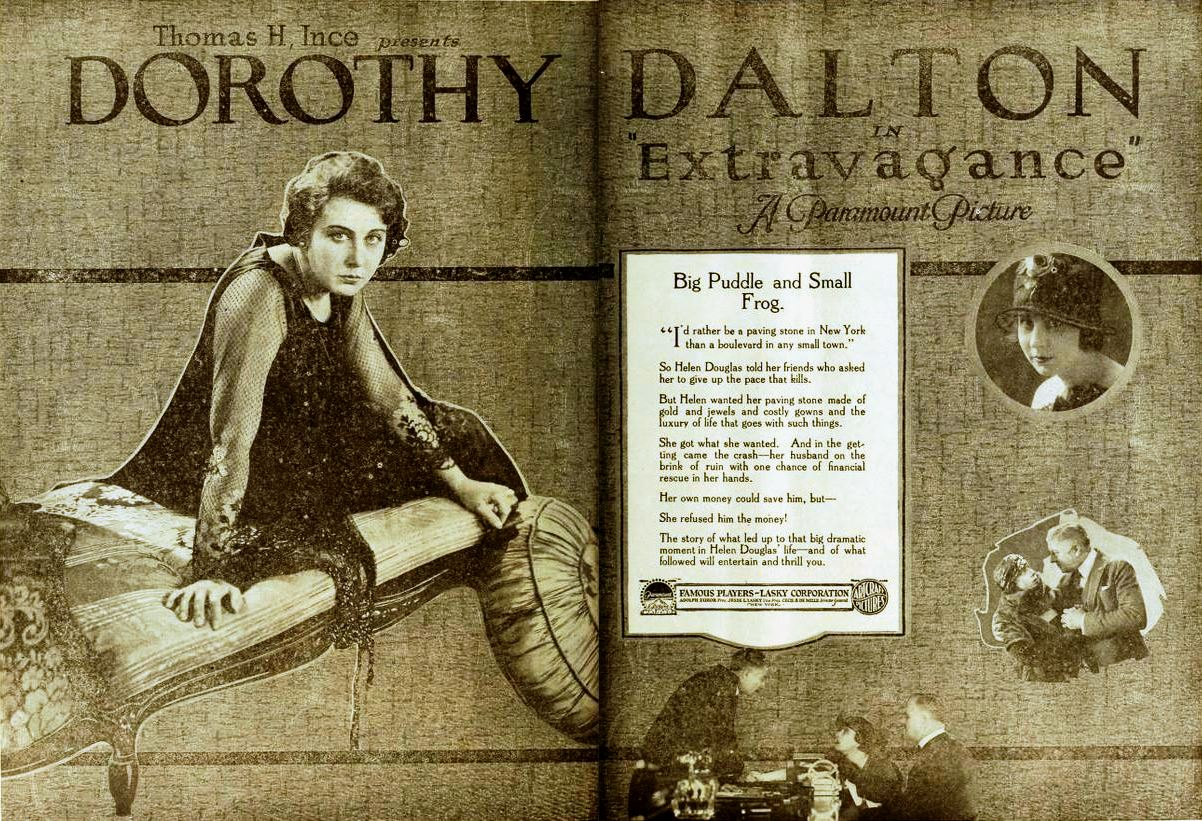 Ad for the American film Extravagance (1919) with Dorothy Dalton, on pages 1556 and 1557 of the March 22, 1919 Moving Picture World.